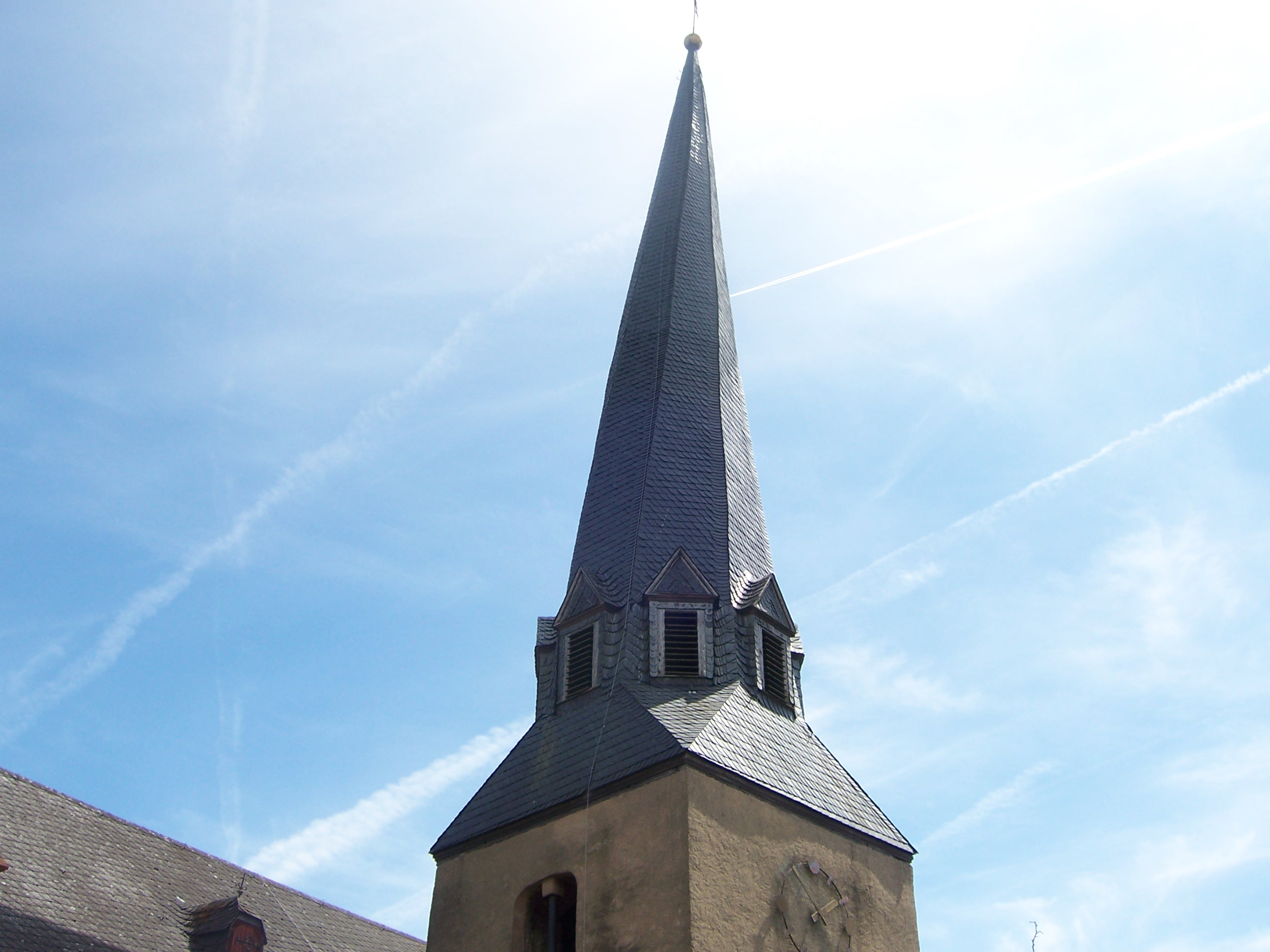 Steeple of the St. Pankratius church in Kaisersesch